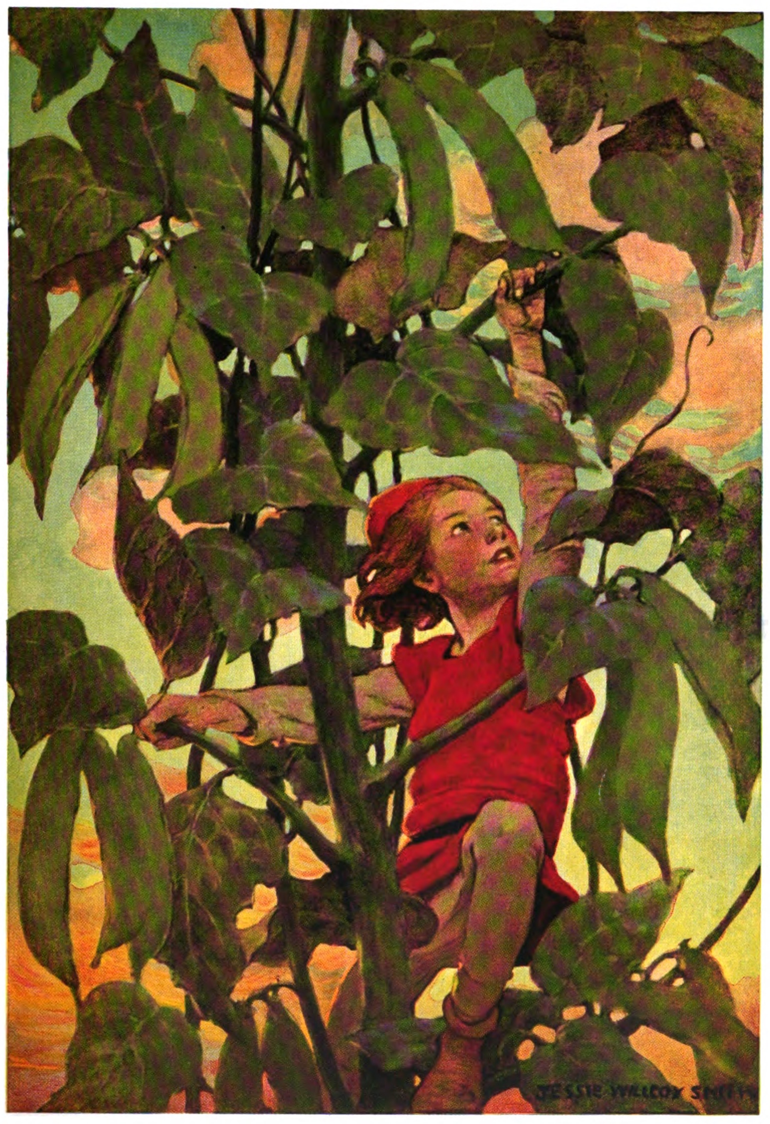 From A Child's Book of Stories by Penrhyn W. Coussens, illustrated by Jessie Willcox Smith. New York: Duffield and Company, 1911.